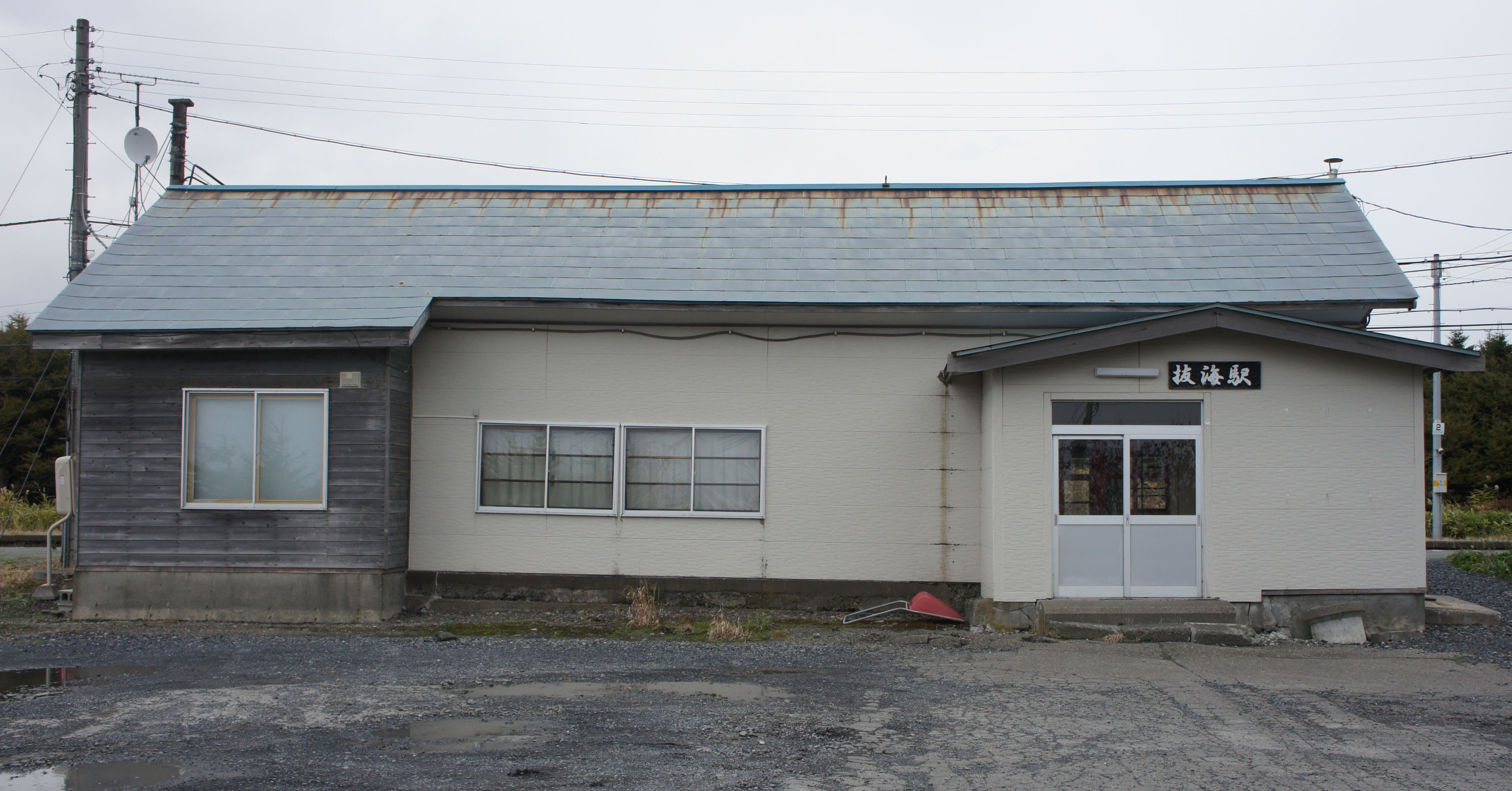 Bakkai Station on the Soya Main Line in Wakkanai, Hokkaido, Japan